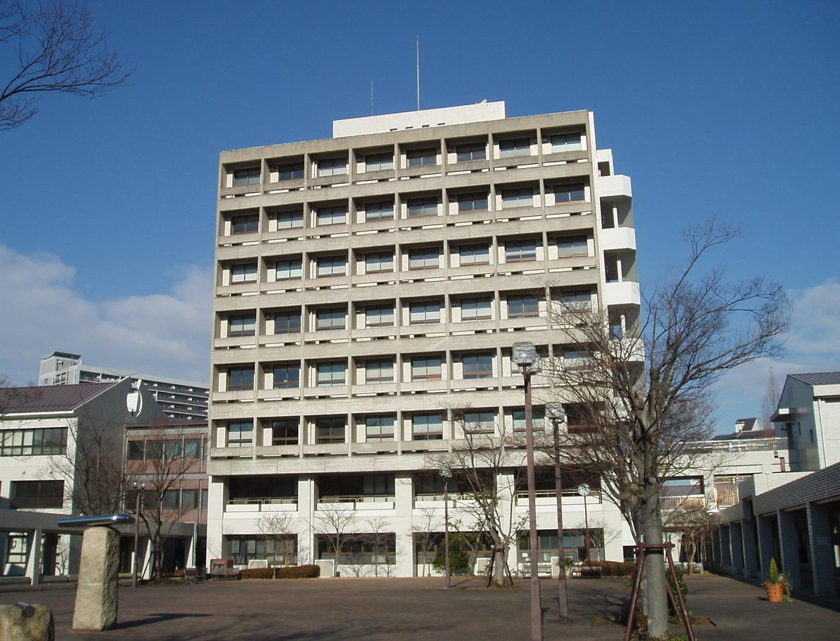 The Research Institute Bldg. of Kobe City University of Foreign Studies. Located in Nishi-ku, Kobe City, Hyogo Prefecture, Japan.